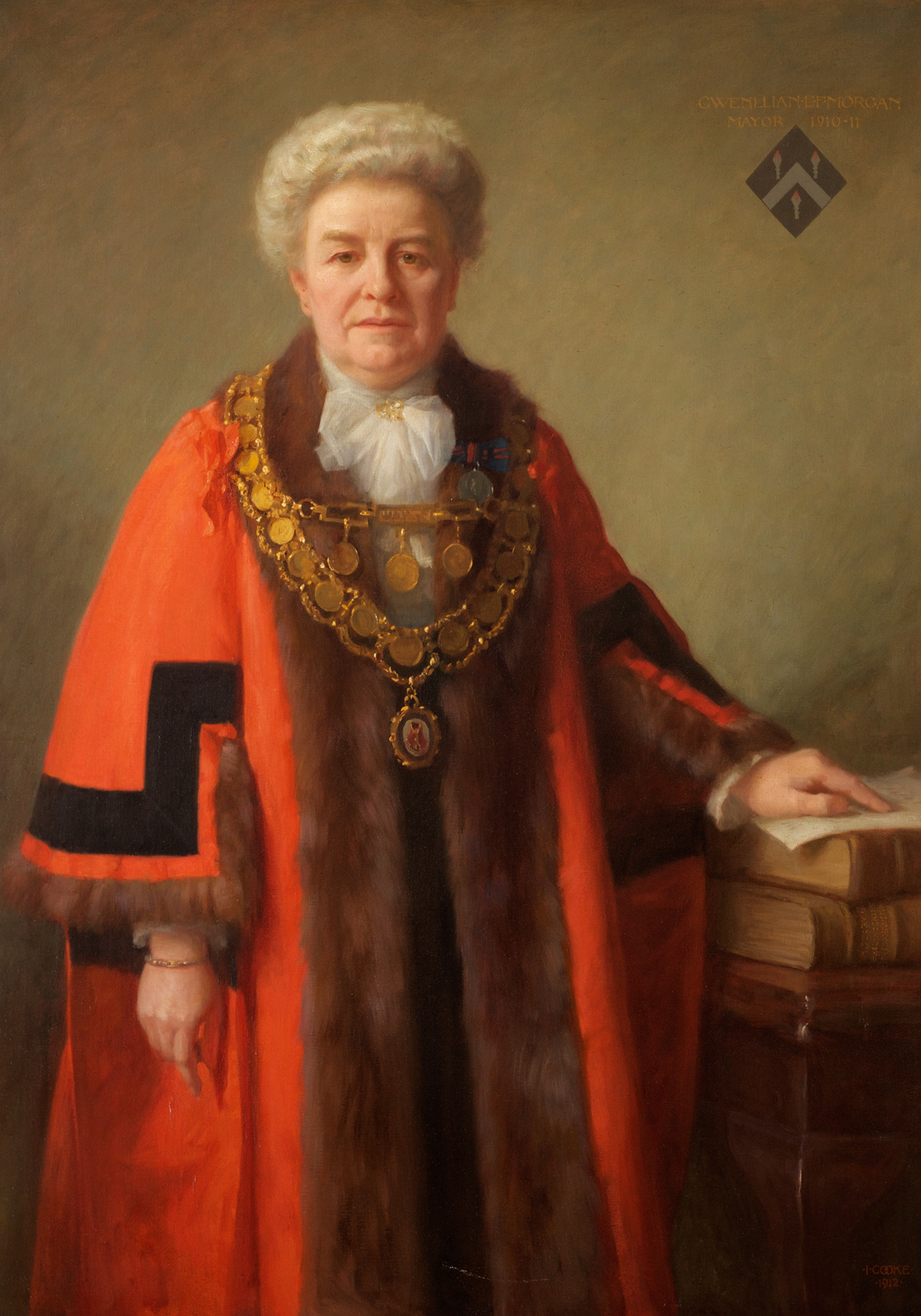 Portrait of Miss Gwenllian E. F. Morgan (1852-1939), Coronation Mayor of Brecon (1910-1911)